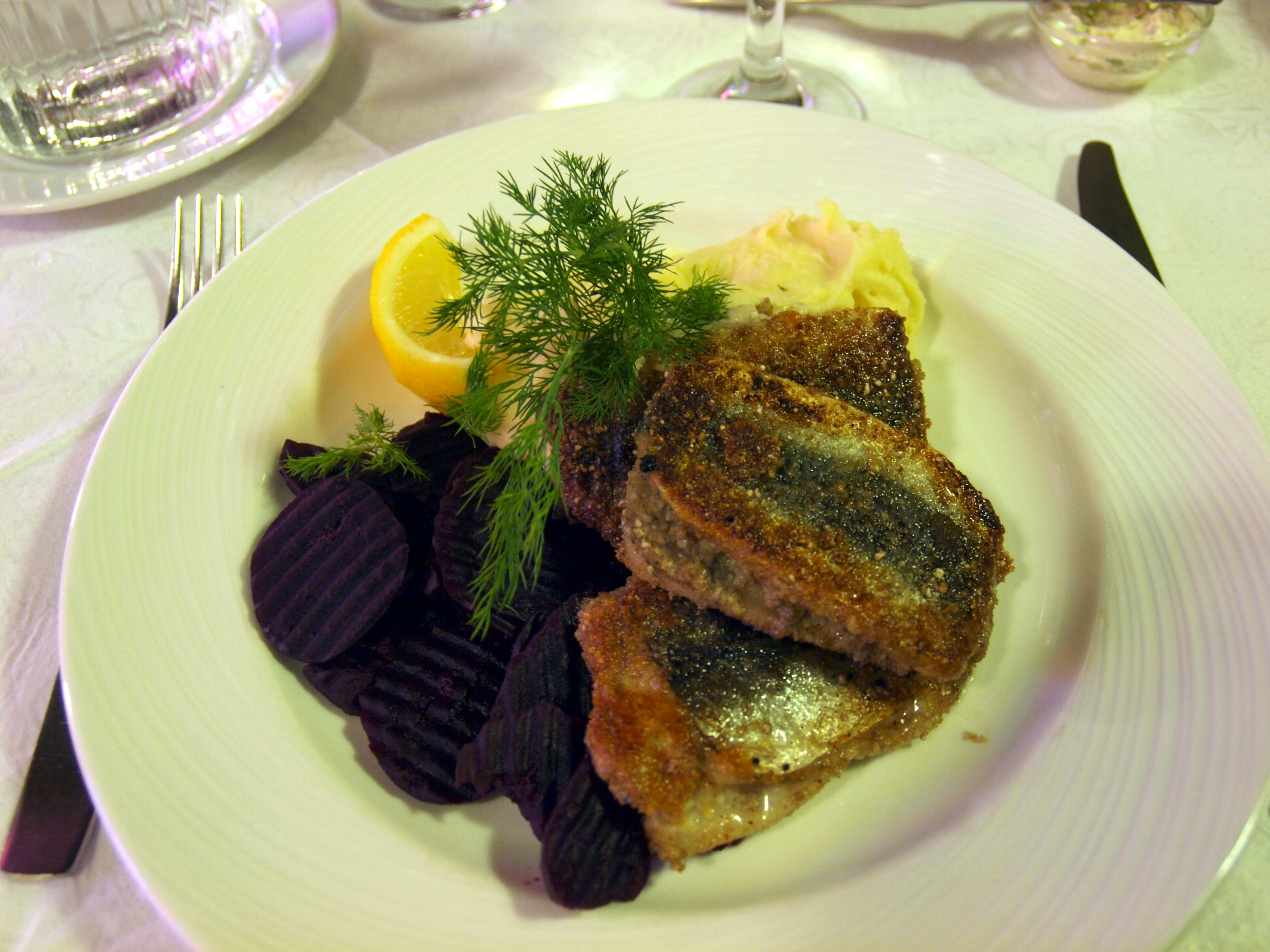 Steaks of Baltic herring at restaurant Sea Horse, Helsinki, Finland. The image has been edited for white balance correction.